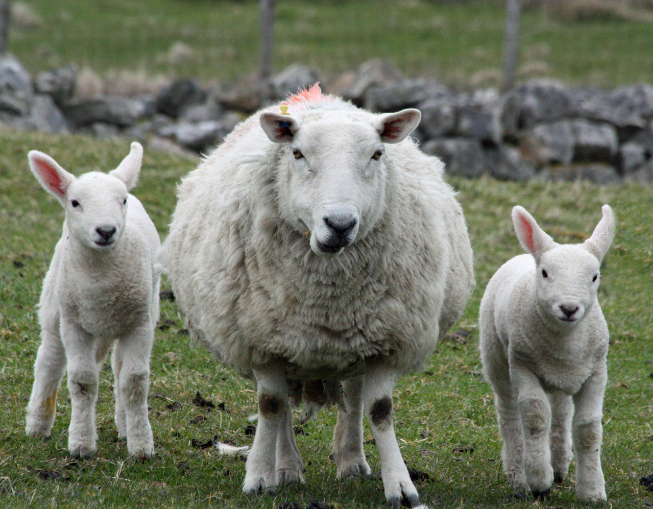 A Cheviot ewe with her twin lambs, Isle of Lewis.